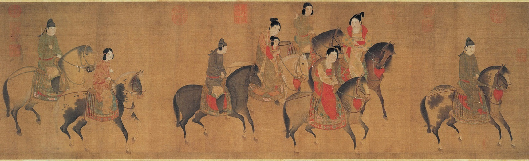 A 12th century Song Dynasty handscroll painting by Li Gonglin, a remake of an earlier 8th century version by the Tang Dynasty artist Zhang Xuan.